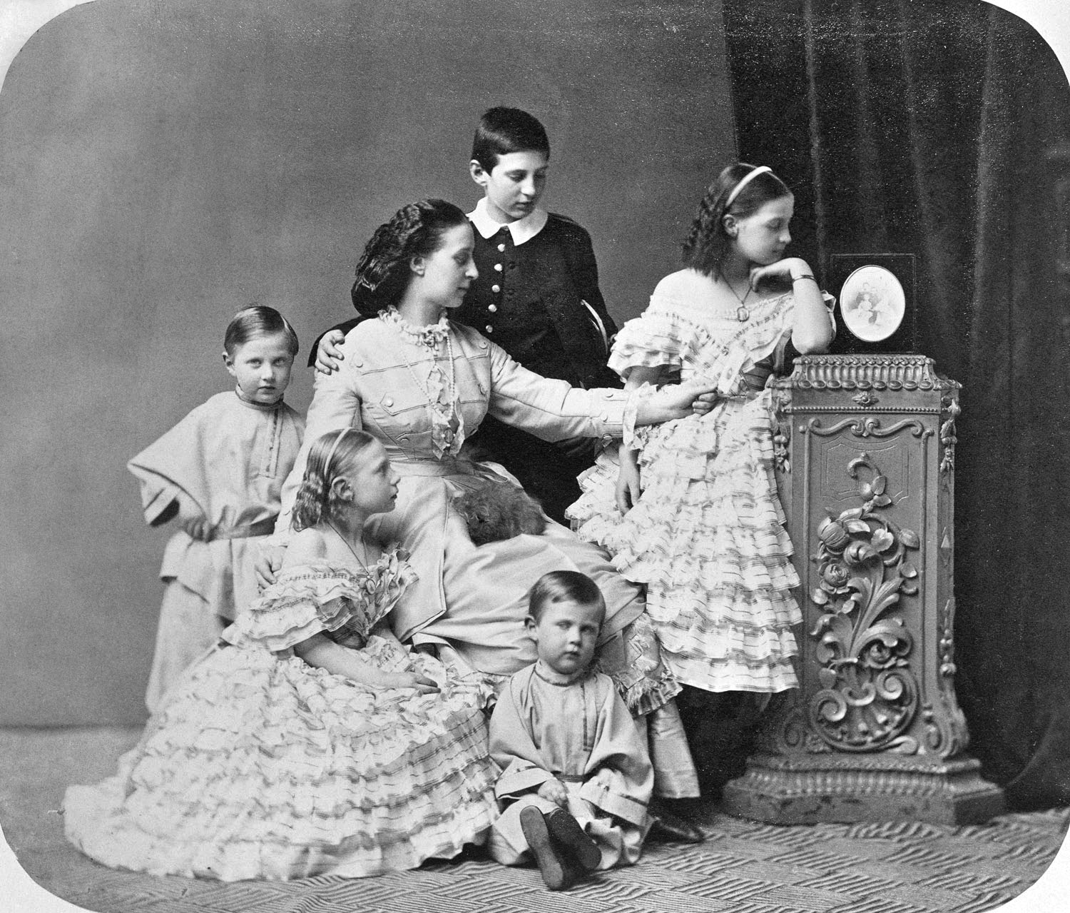 Princess Alexandra of Saxe-Altenburg with her eldest children Photograph of the Grand Duchess Alexandra (1830-1911) of Russia, seated with her head in right profile looking at a photograph (?) that she holds at arm's length in her left hand. Her children surround her: Grand Duke Nikolai (1850-1918), Constantine (1858-1915), Dimitri (1860-1919), and Grand Duchesses Olga (1851-1926) and Vera (1854-1912).